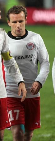 Vassiljev playing for FC Amkar Perm.